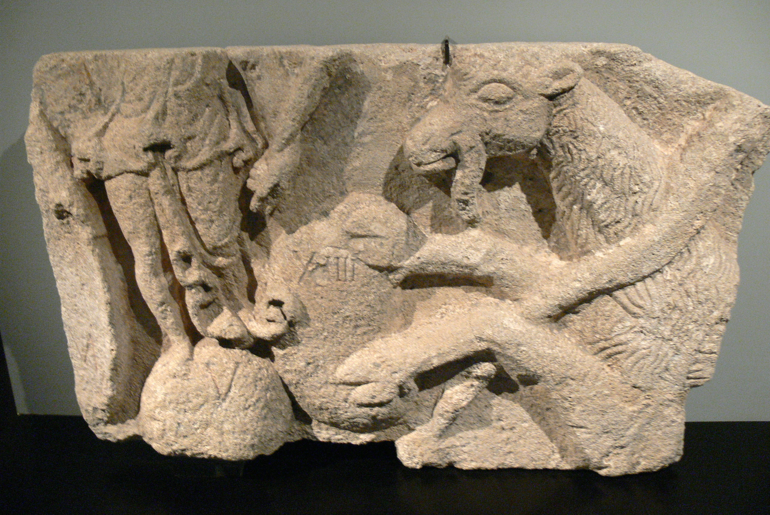 Museum Carnuntinum ( Lower Austria ). Relief at the military sanctuary ( 2nd/3rd century ): Capricorn as symbol of the legio XIV Gemina Martia Victrix.